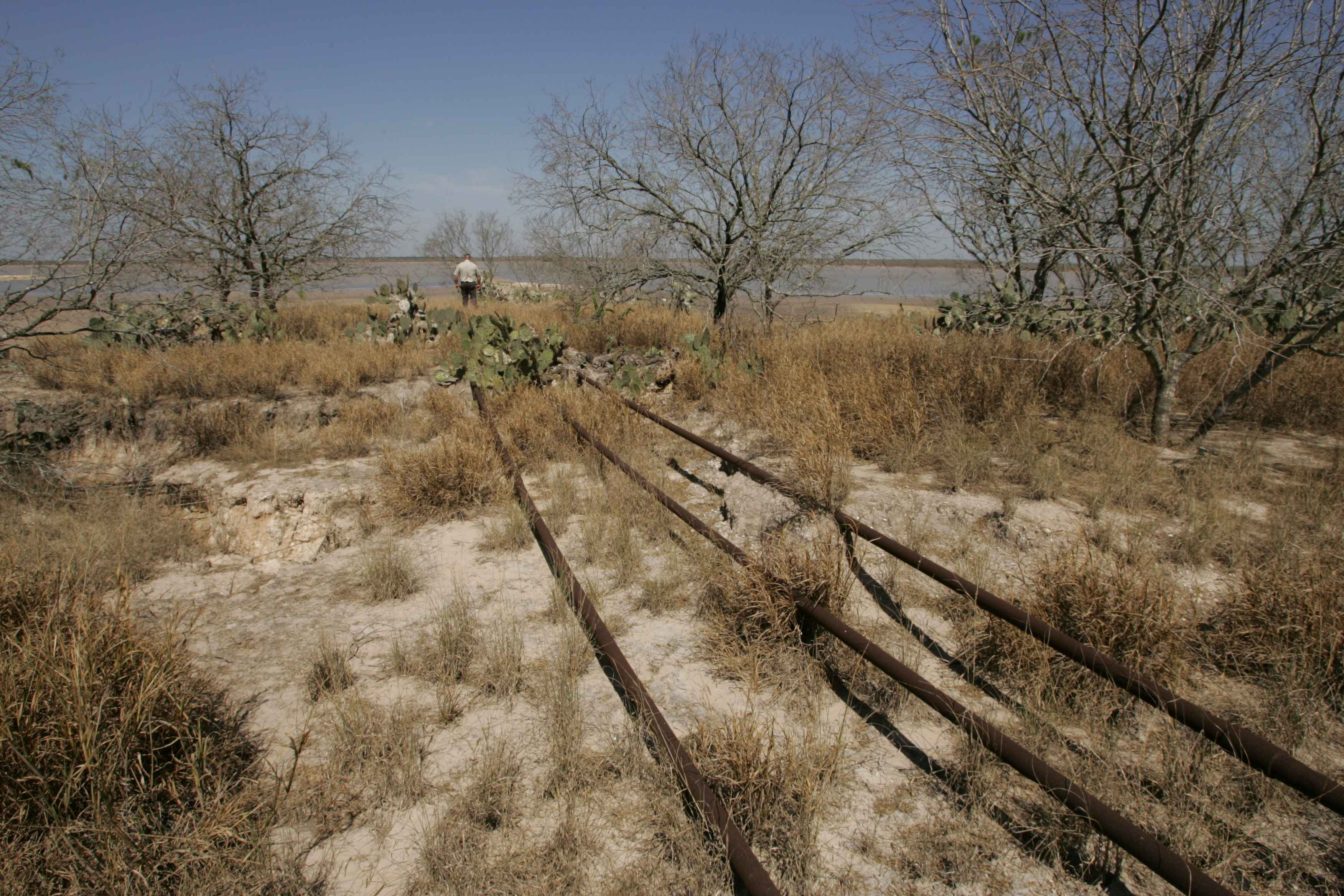 Image title: Abandoned gas pipelines from well Image from Public domain images website